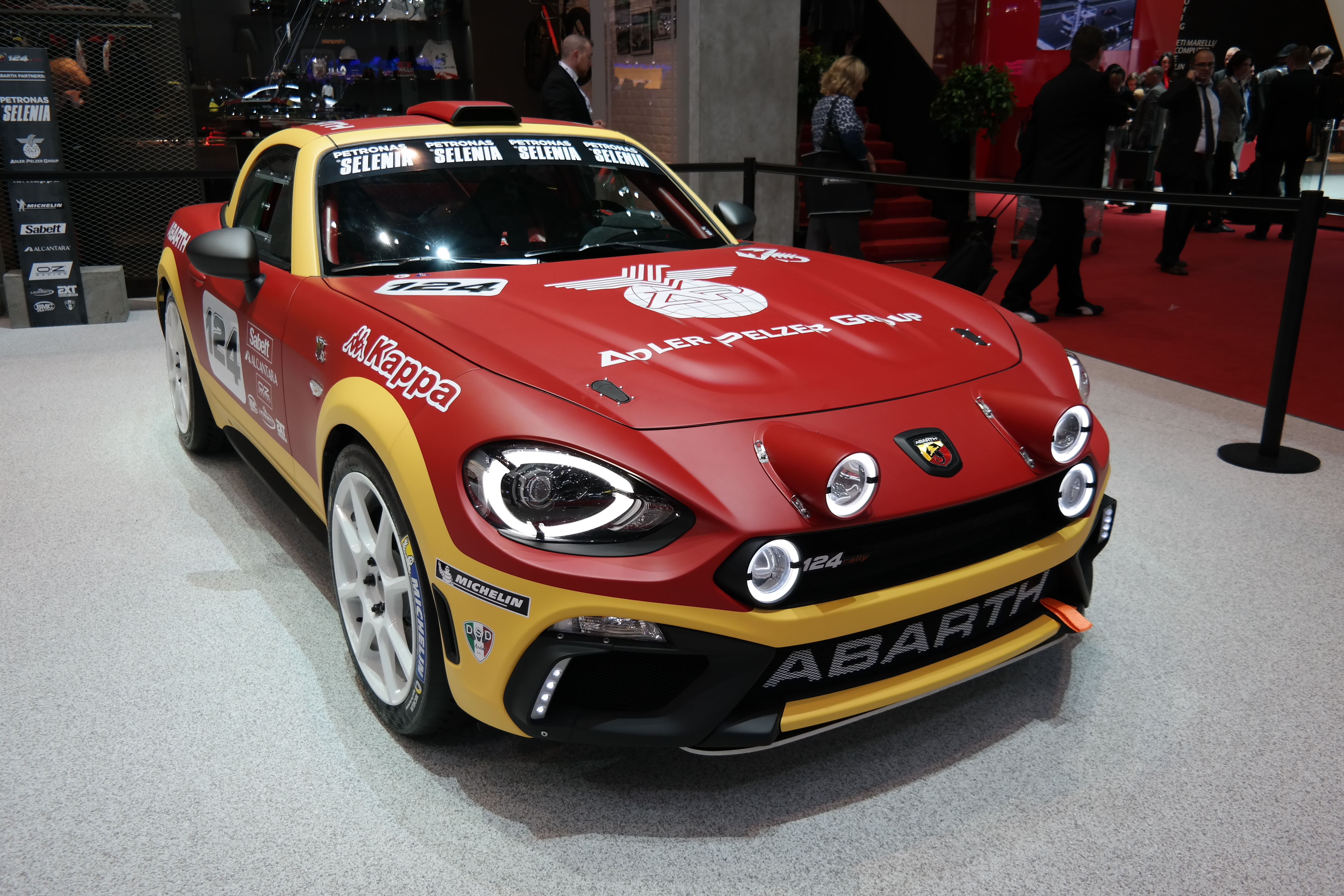 Geneva Motor Show 2016 (photo taken on the first press day)